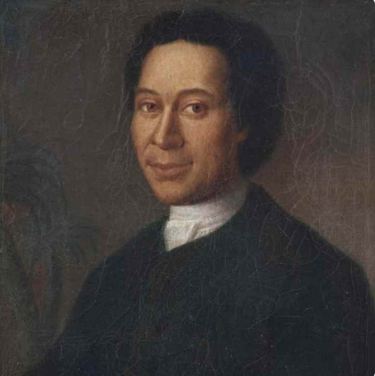 A profile of Christian Jacob Protten, Gold Coast Euro-African missionary